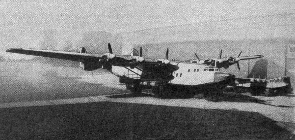 The full size Potez-CAMS 161 flyingboat (first flown 1942) in front of its aerodynamic test, 5/13 scale model, the Potez-CAMS 160, used to explore its characteristics from 1938.